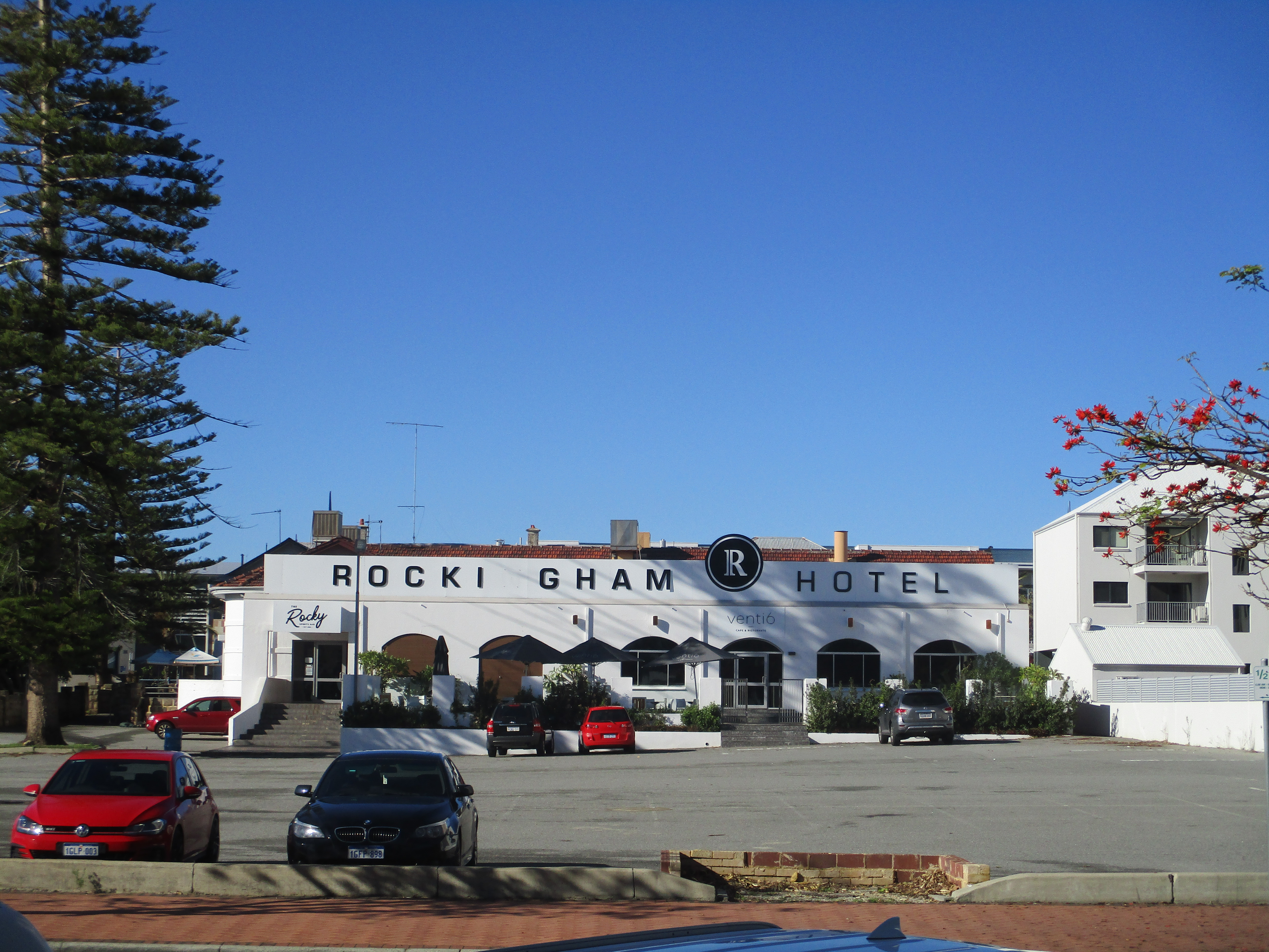 The Rockingham Hotel at Rockingham, Western Australia, seen from the foreshore.